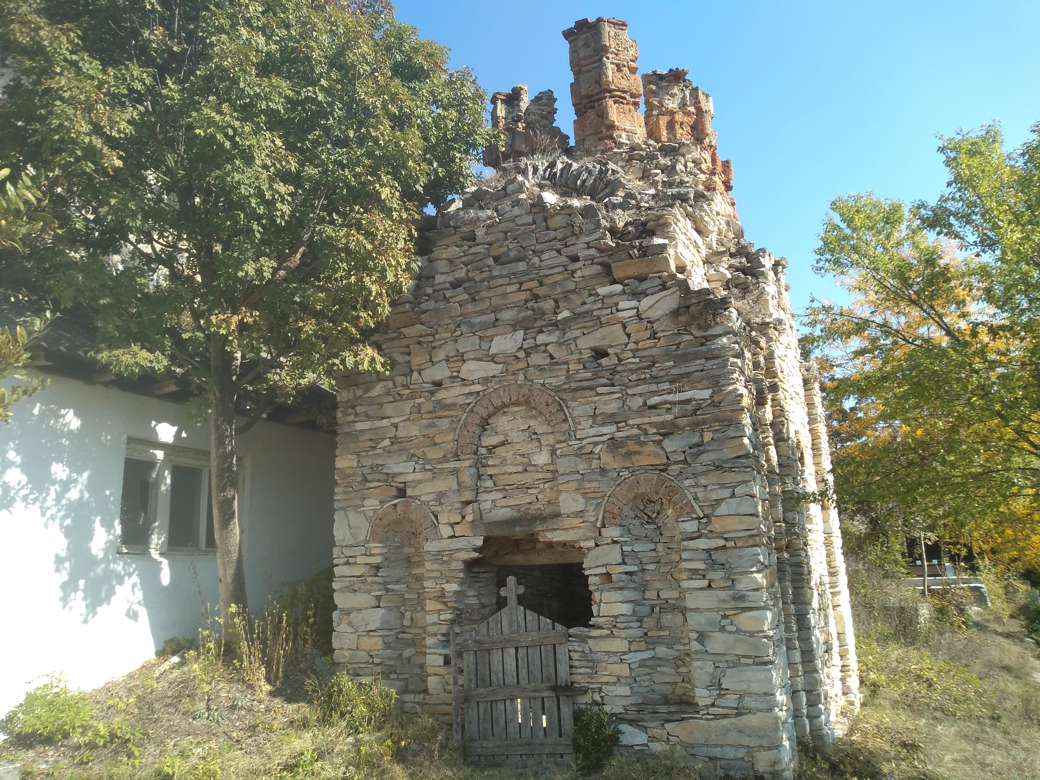 Medieval church in ruins, at Devini Kuli fortress, near Devich, in Poreche region, Macedonia